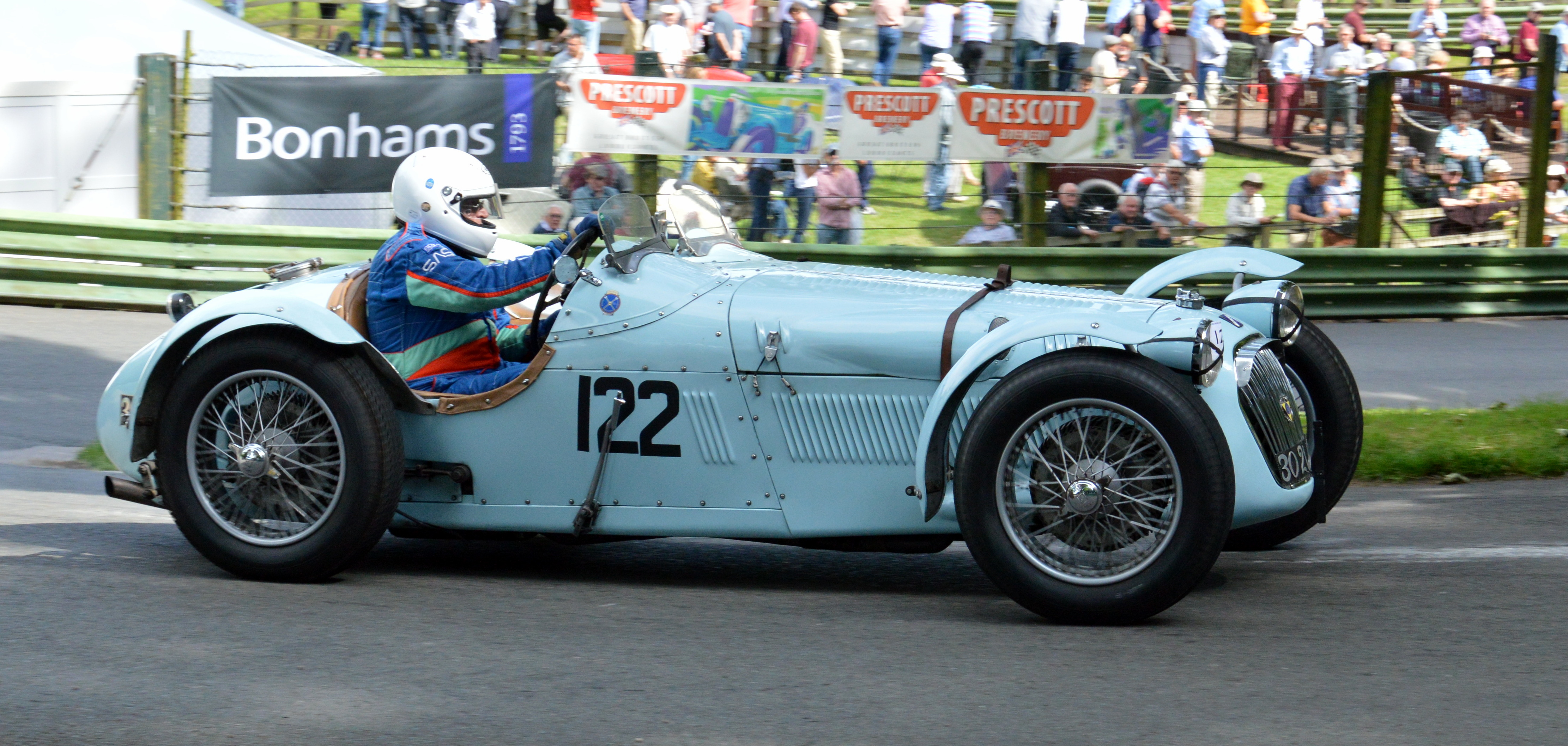 John Guyatt's 4000cc 1939 Talbot Lago T150C on a timed run at the VSCC hill climb at Prescott